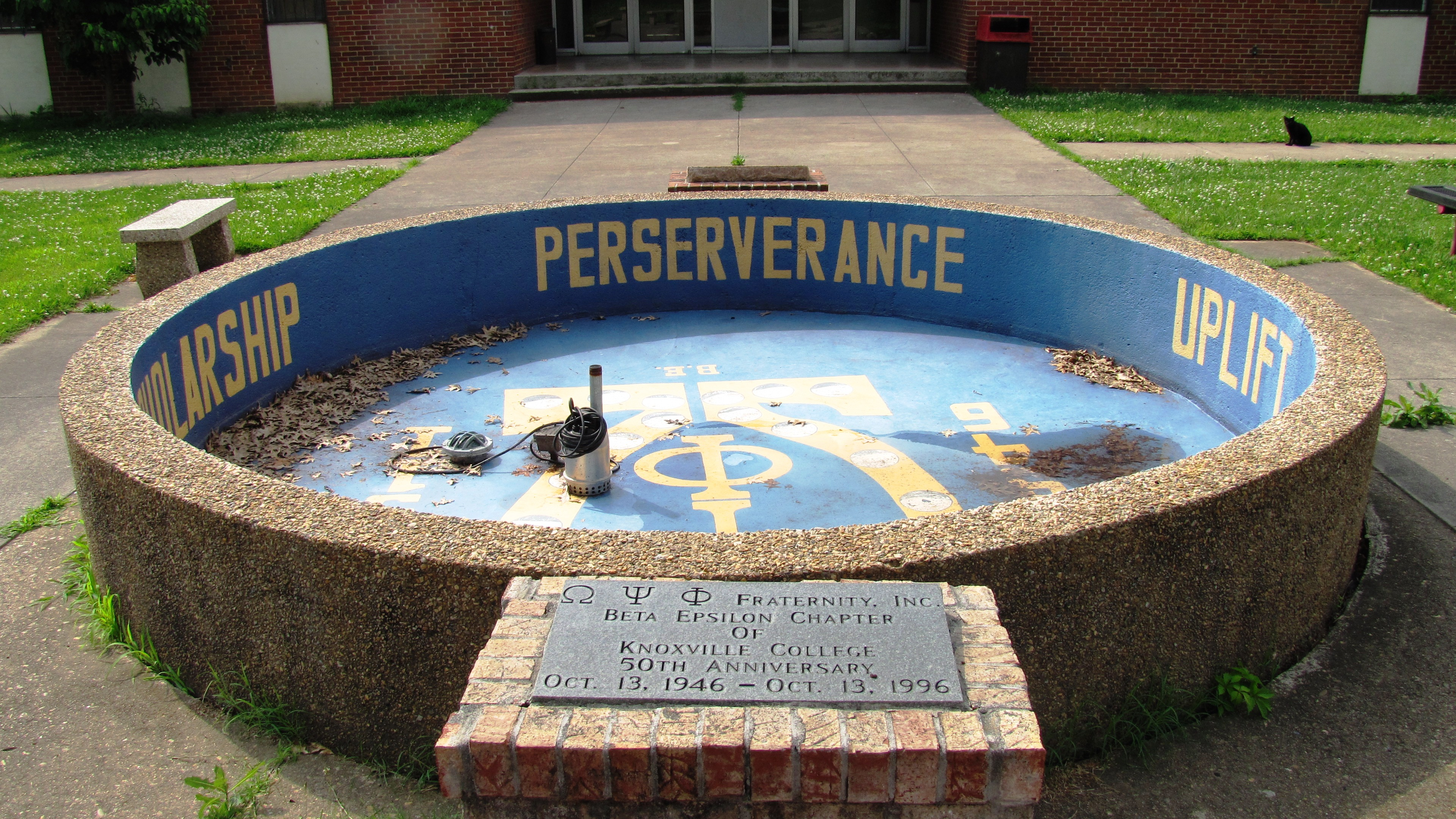 Omega Psi Phi monument in front of the College Center on the campus of Knoxville College in Knoxville, Tennessee, USA.